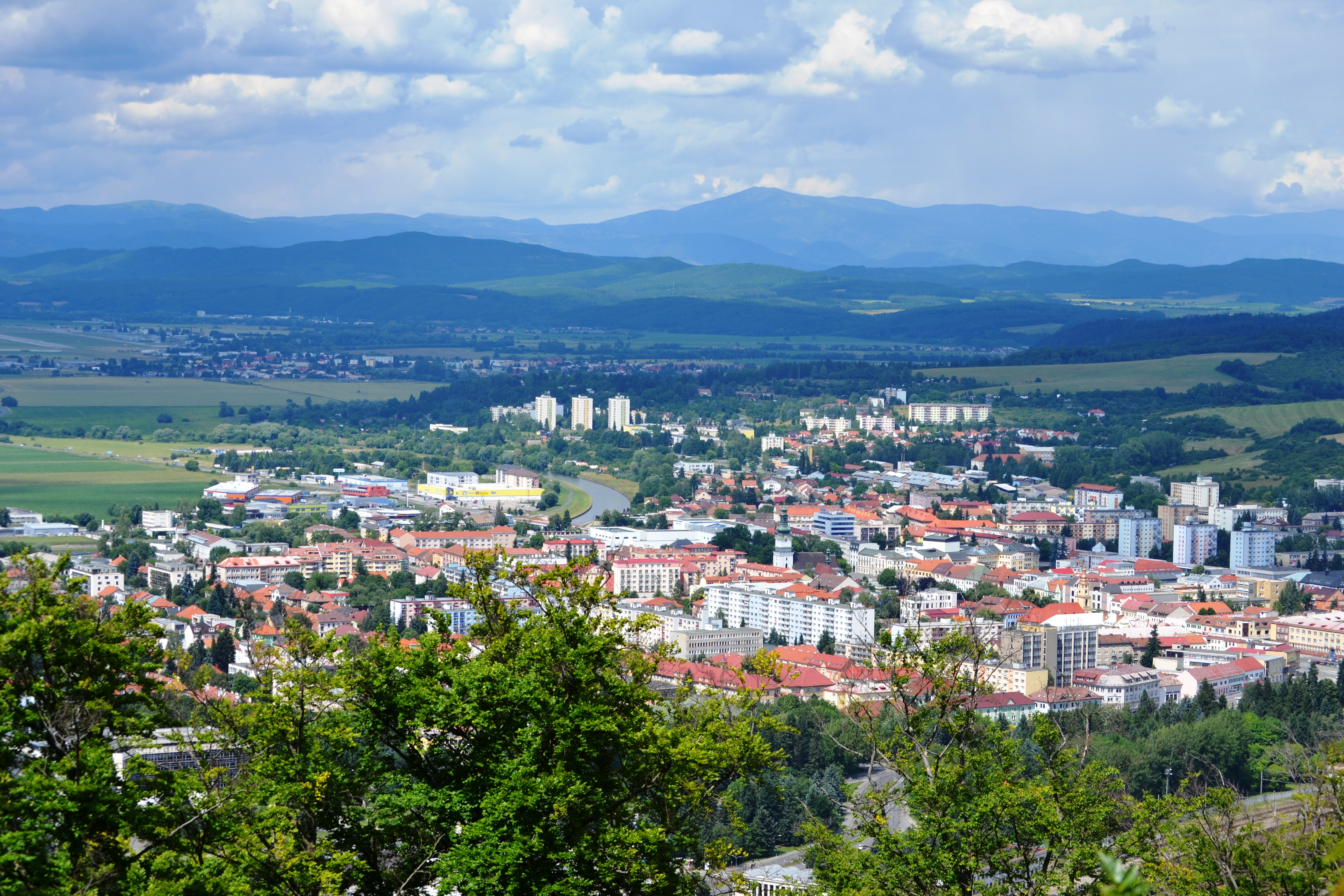 View of the city ZvolenSlovenčina: Pohľad na mesto Zvolen